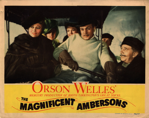 Lobby card from the 1942 film The Magnificent Ambersons